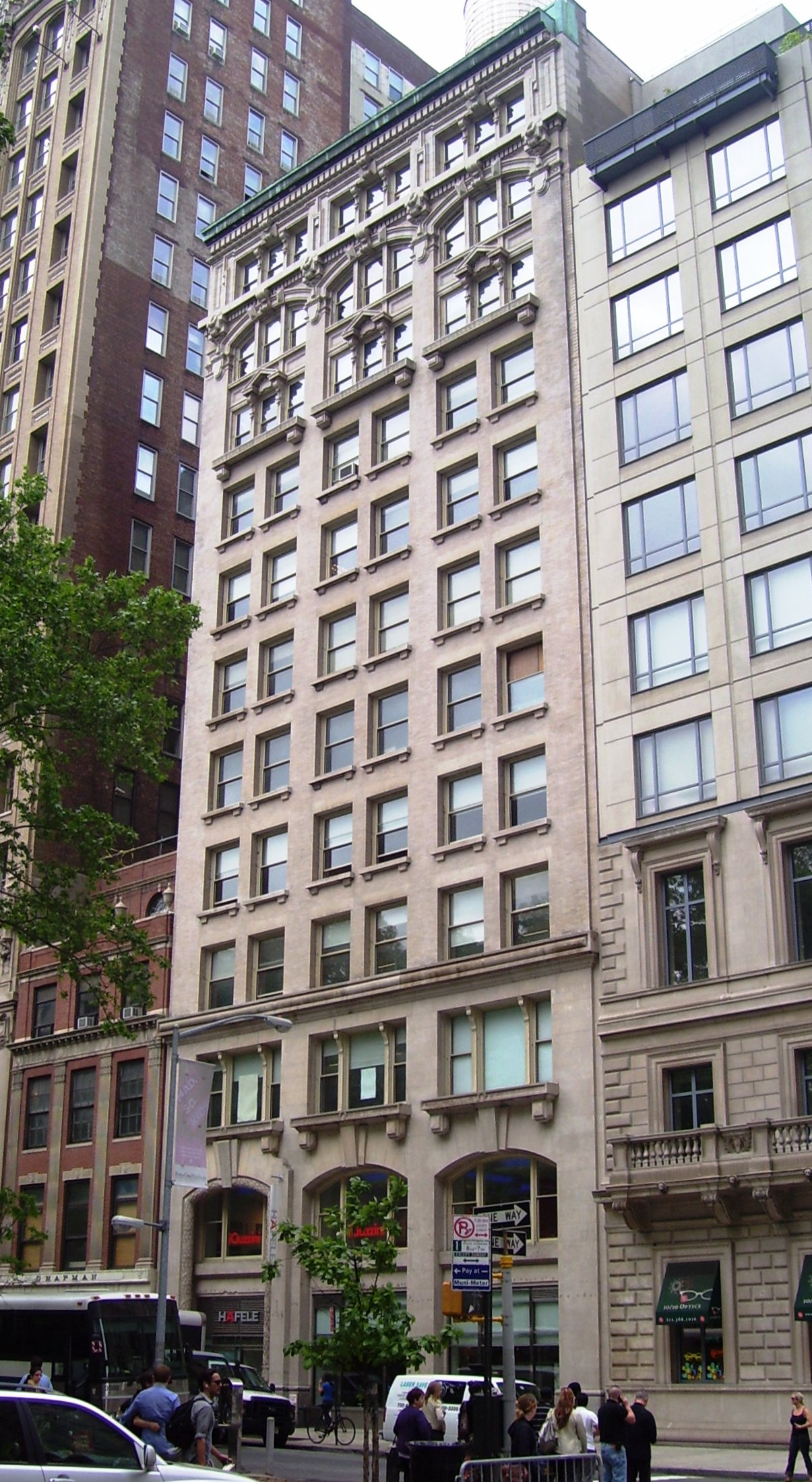 23-25 East 26th Street (also known as 54-60 Madison Avenue and 18-20 East 27th Street) between Fifth and Madison Avenues, across from Madison Square Park, in the NoMad neighborhood of Manhattan, New York City, was built in 1909-10, and was designed by Maynicke & Franke (Robert Maynick and Julius Franke) in the Beaux-Arts style. It is known as the Neptune Building, and is locate within the Madison Square North Historic District. (Source: "NYCLPC Madison Square North Historic District Designation Report")